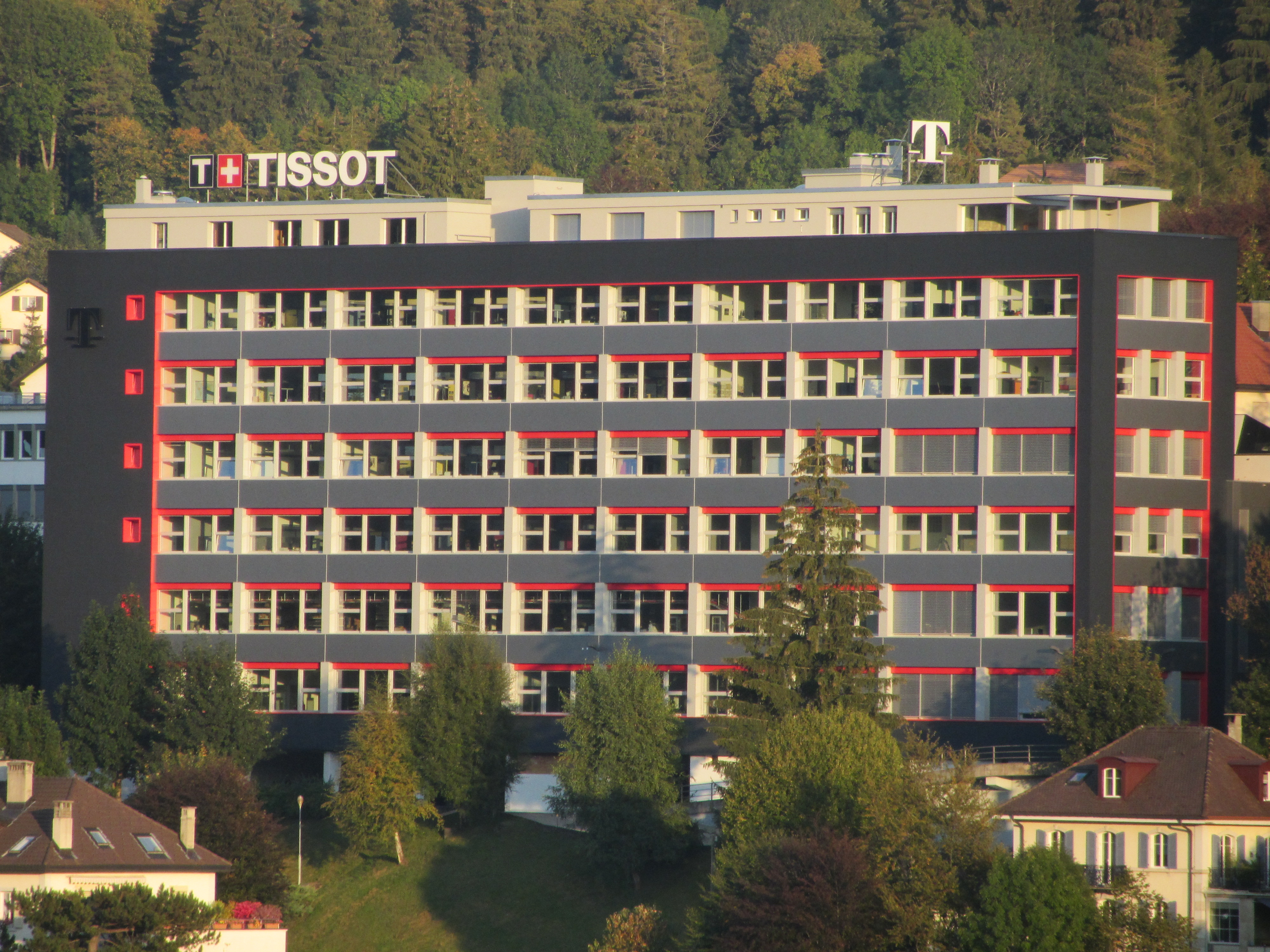 Switzerland, Le Locle, Tissot watch factory